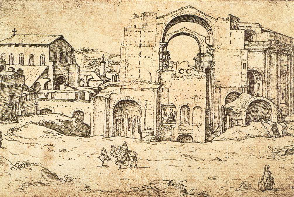 St. Peter's Basilica, under construction in 1536 by Marten van Heemskerck